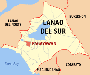 Map of the Lanao del Sur showing the location of Pagayawan